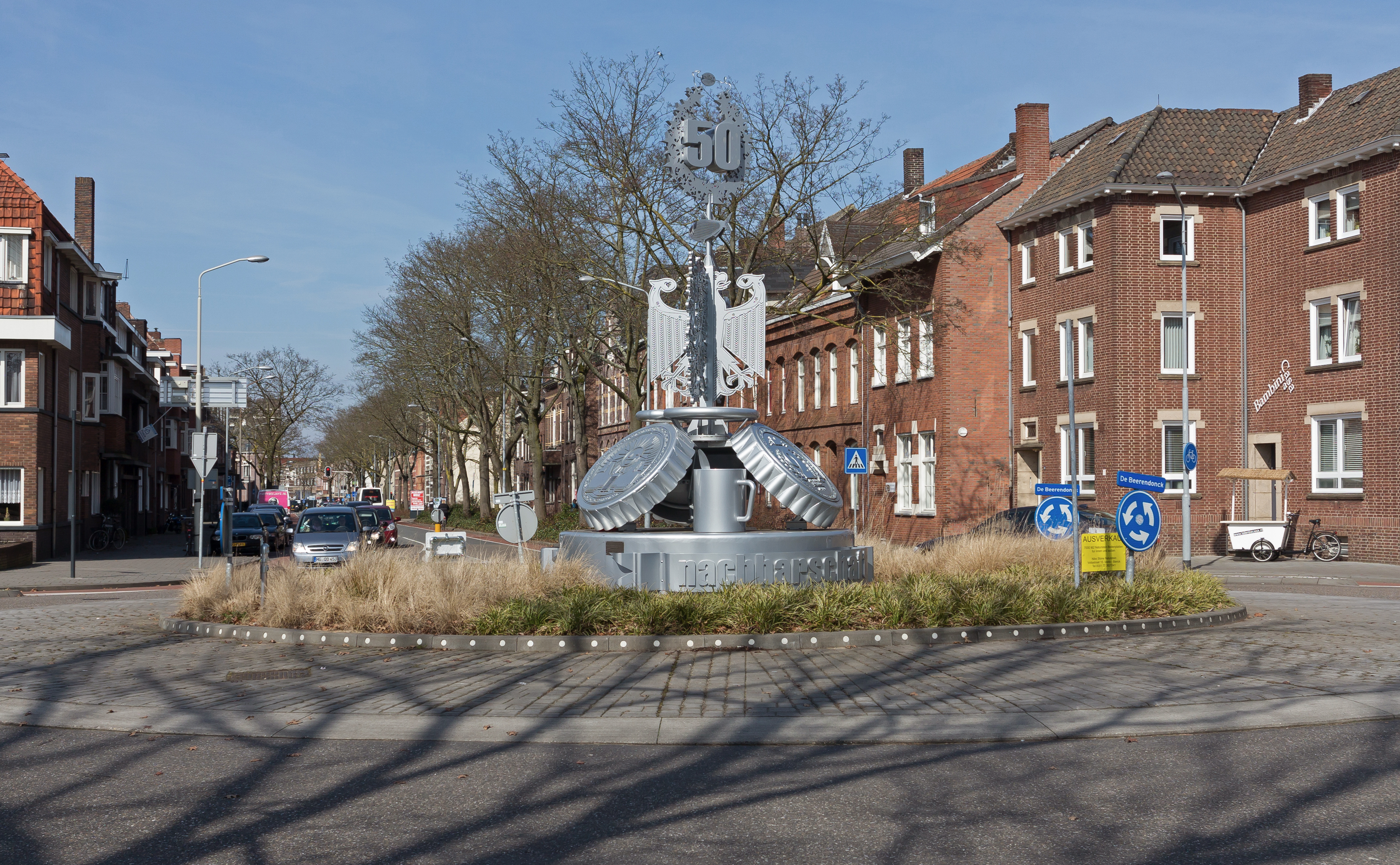 Venlo, sculpture Brüder made by Arno Coenen at a roundabout